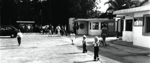 Children at Latina Refugee Camp